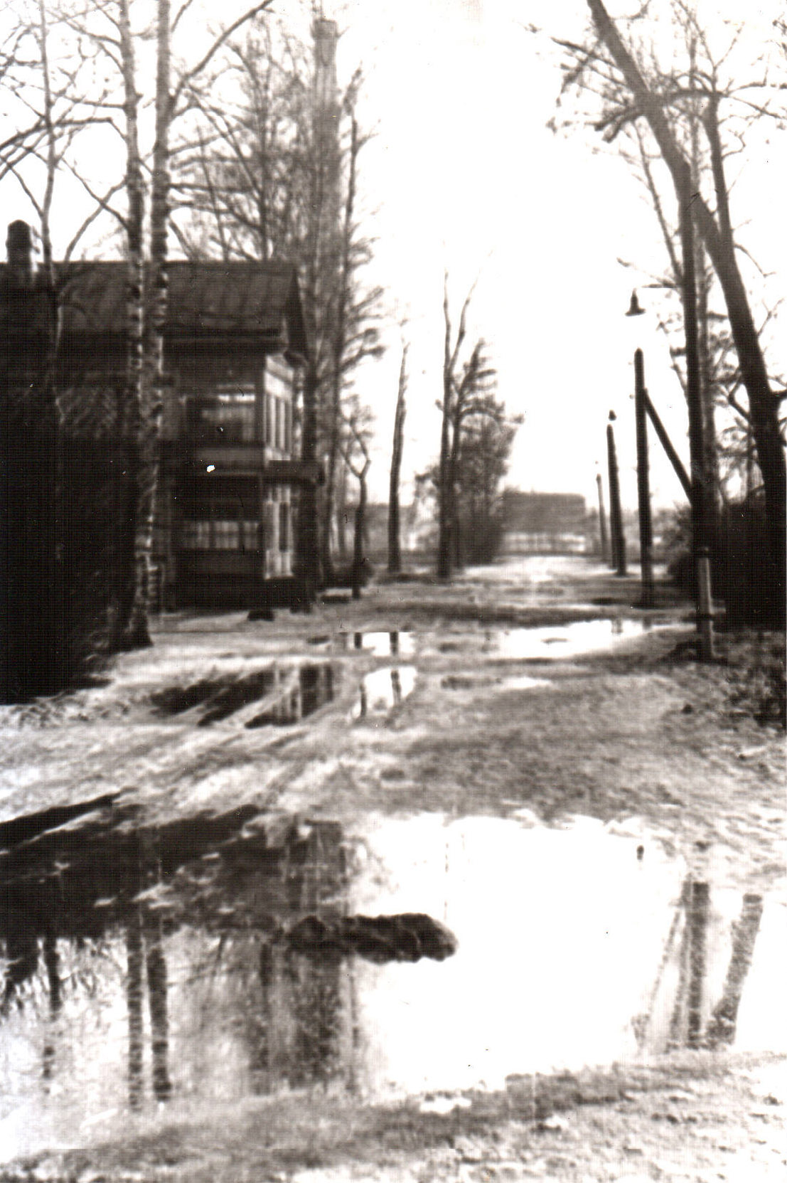 Startseva street in Saint Petersburg (Russia), photo taken in 1974.